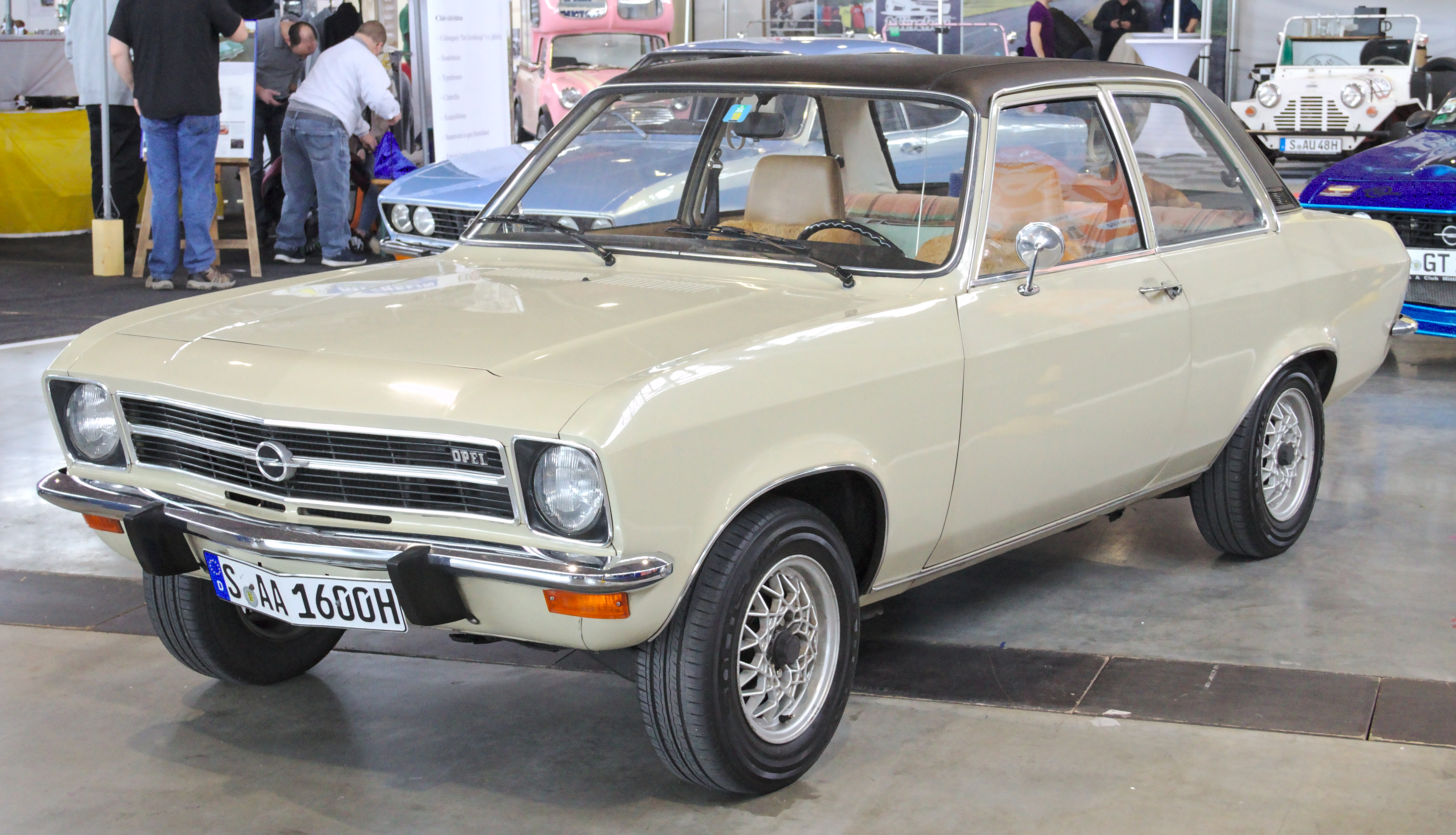 Opel Ascona A (1972) at Retro Classics 2020